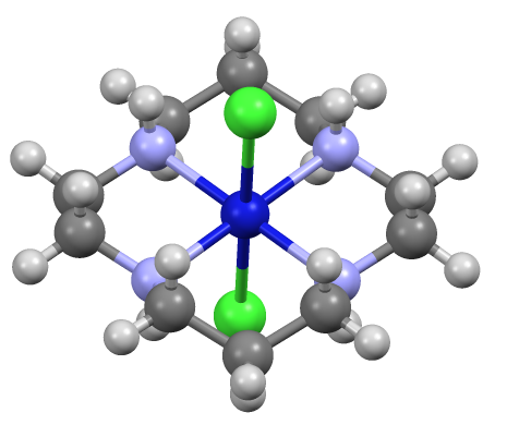 Structure of Ni(cyclam)Cl2